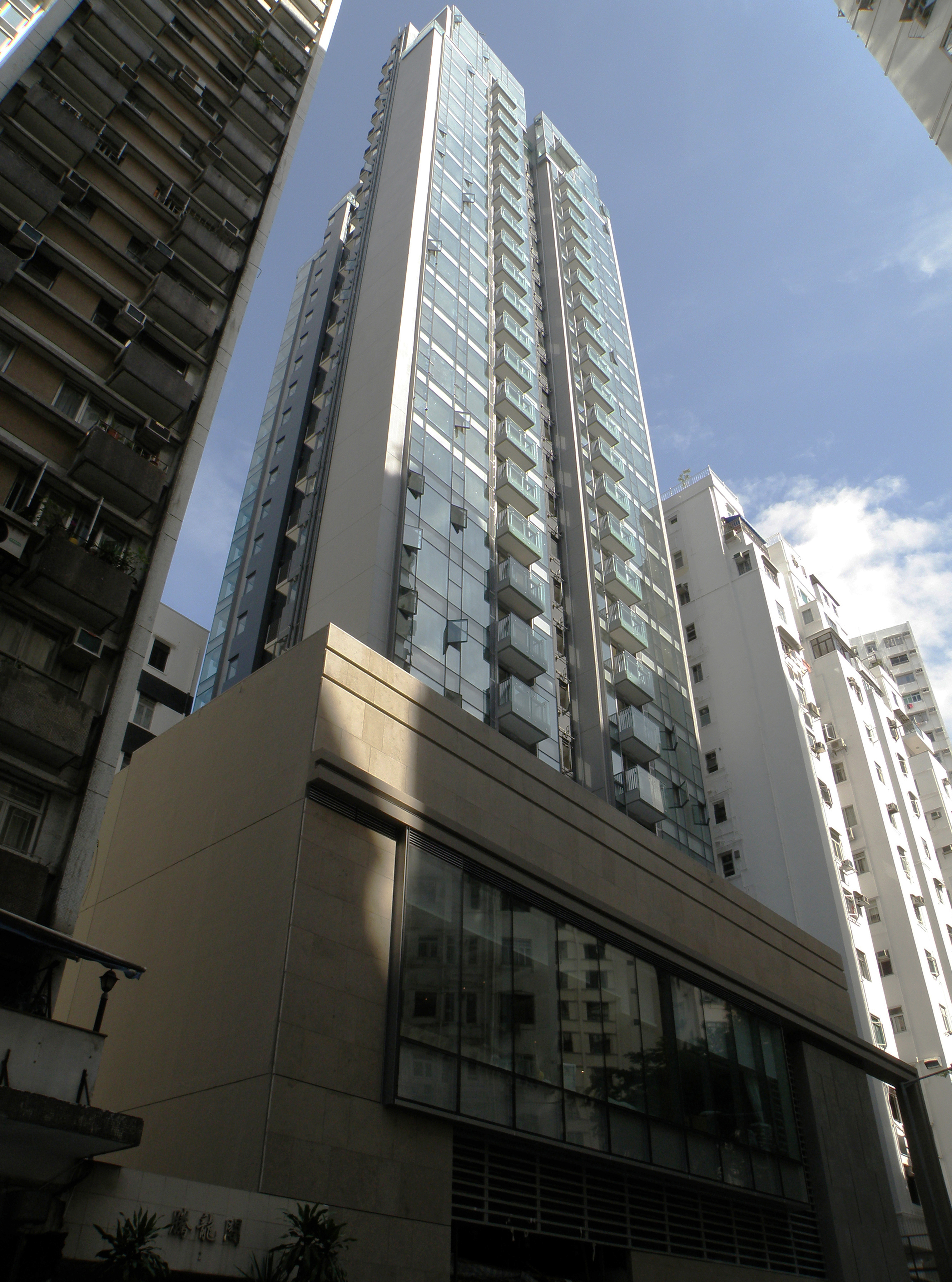 3 Julia Avenue in Mong Kok, Hong Kong.